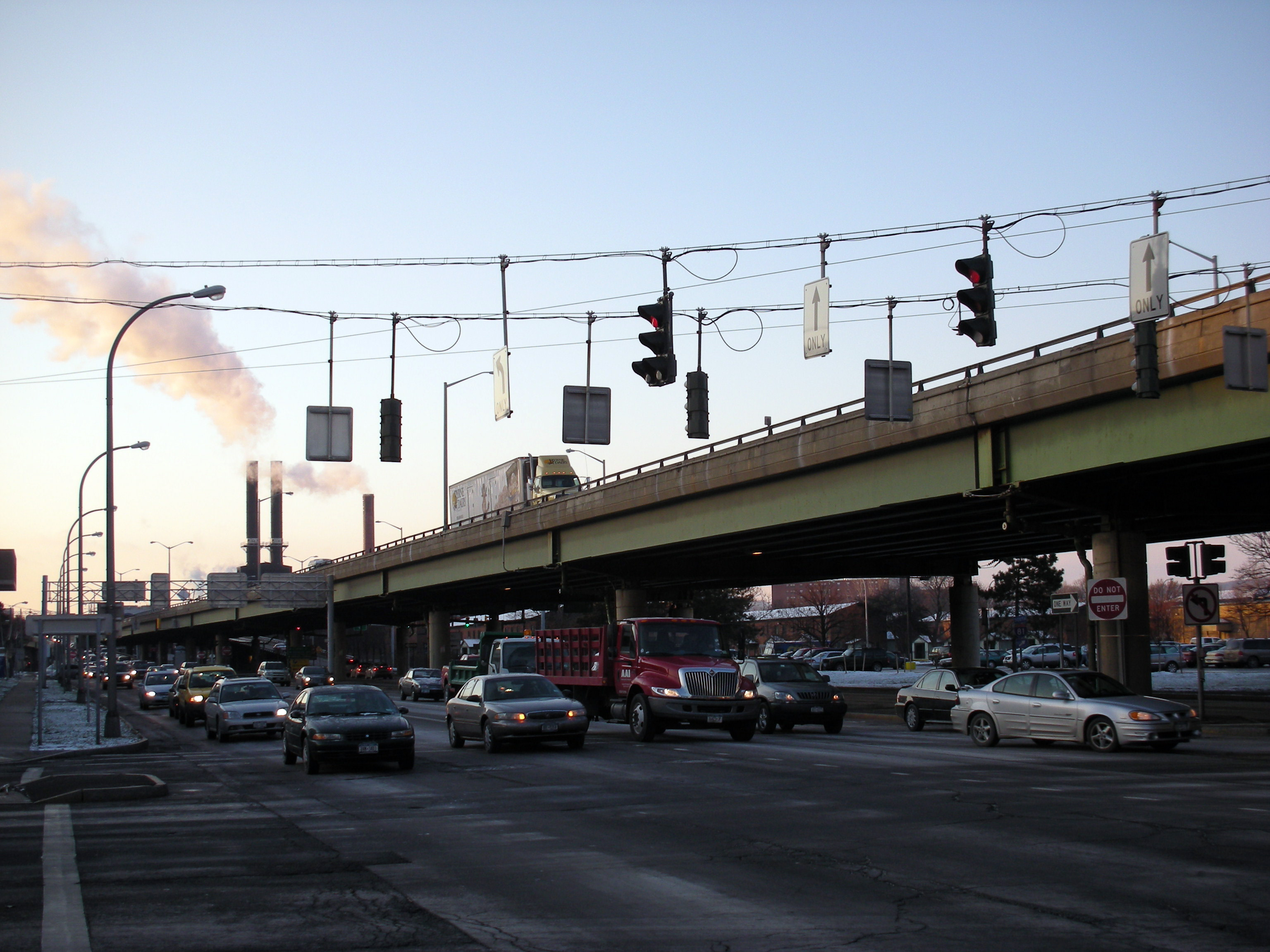 Elevated section of Interstate 81 in Syracuse, NY.